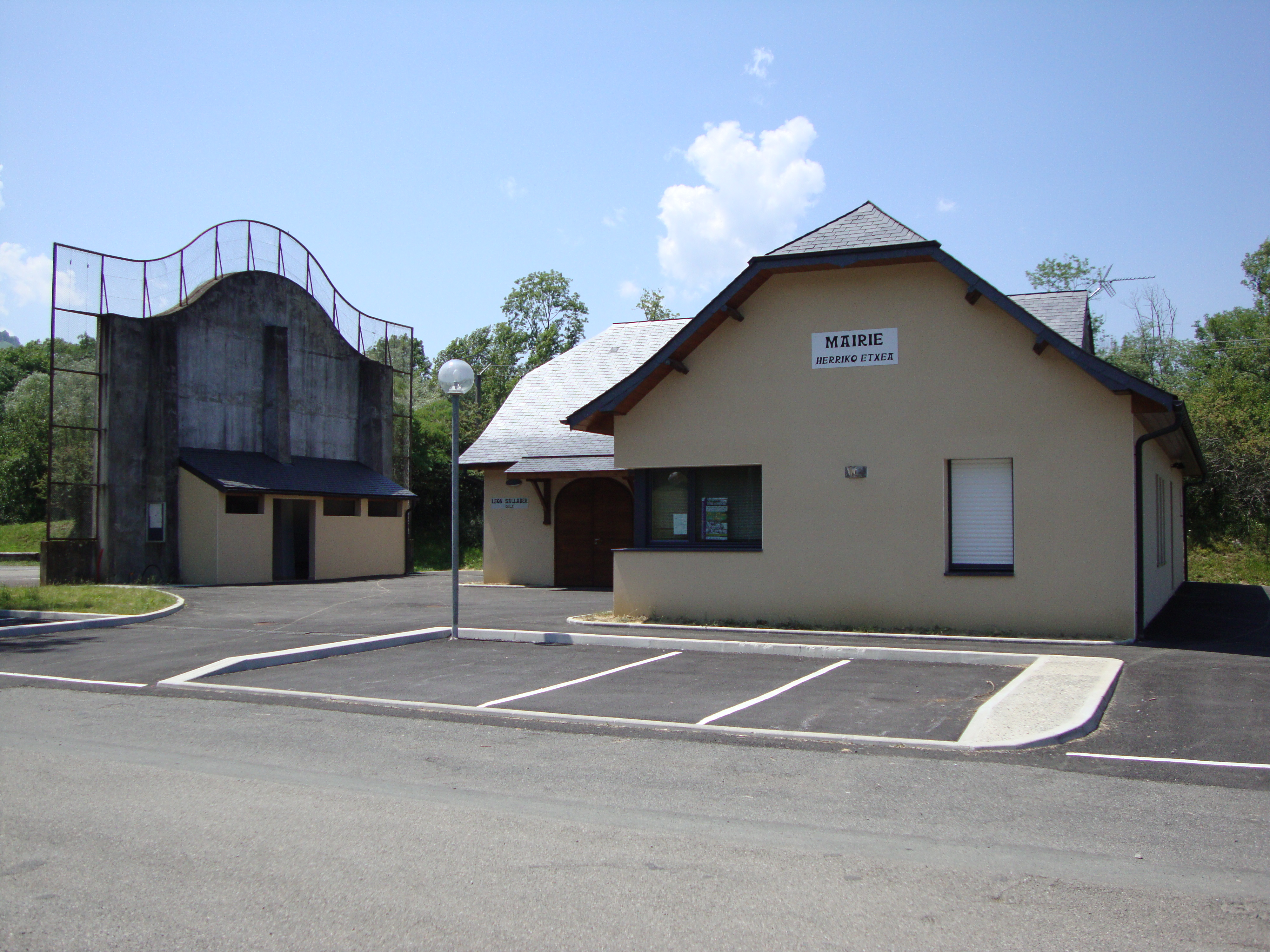 Laguinge (Laguinge-Restoue, Pyr-Atl, Fr) town hall and pelota court